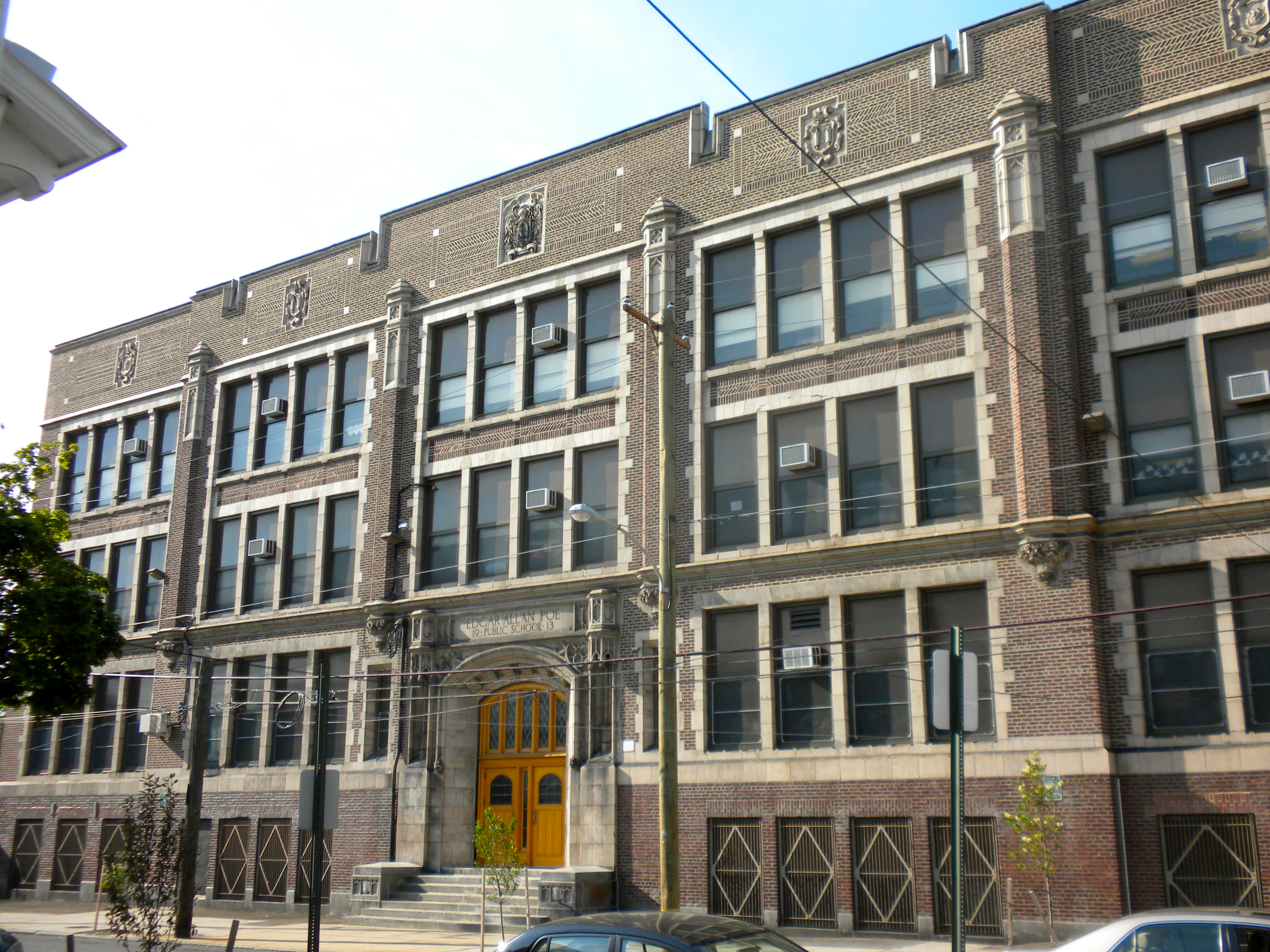 Edgar Allan Poe School, now used as the Girard Academic Music Program, on the NRHP since December 4, 1986. At 2136 Ritner Street, in the Girard Estate neighborhood of south Philadelphia